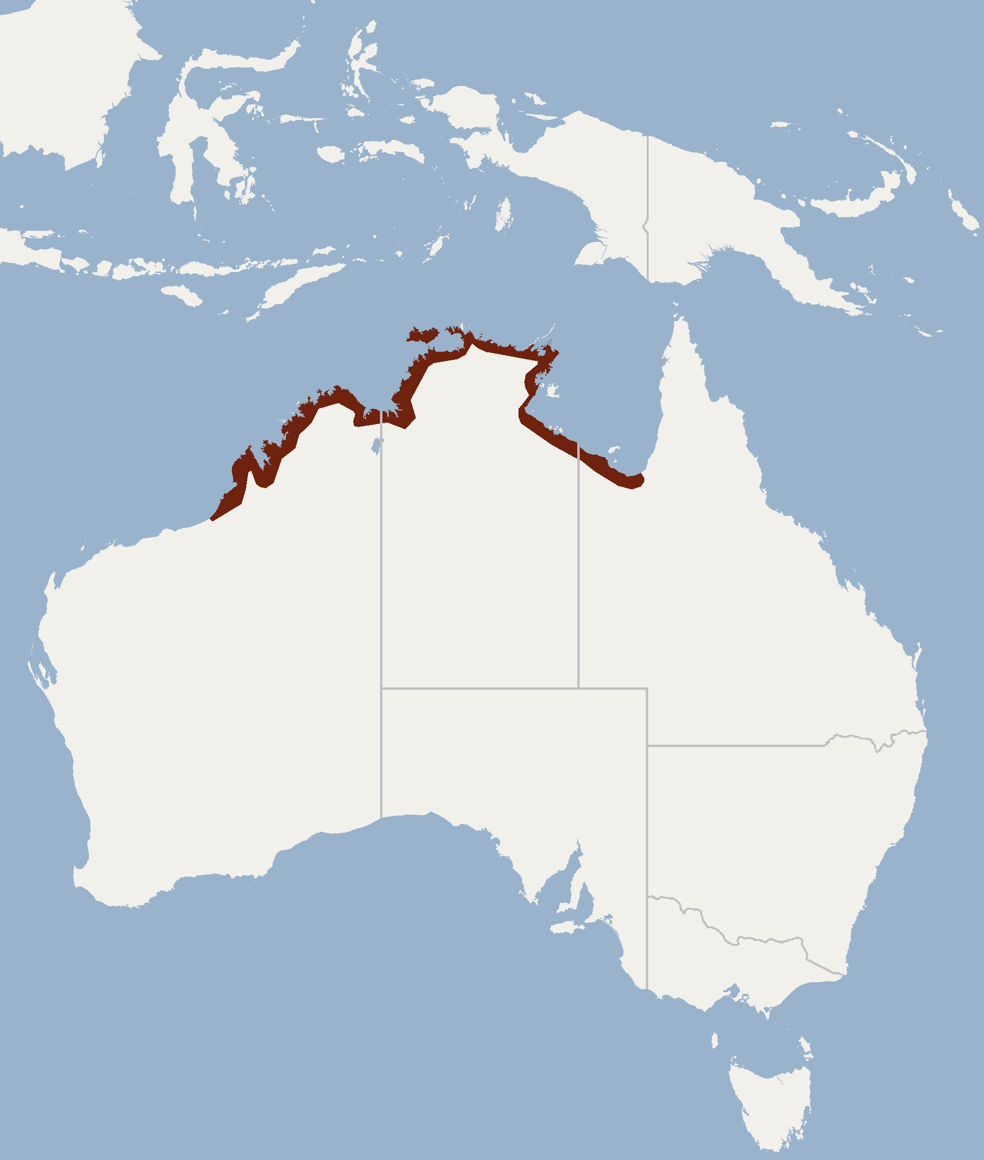 According to Menkhorst & Knight, 2001